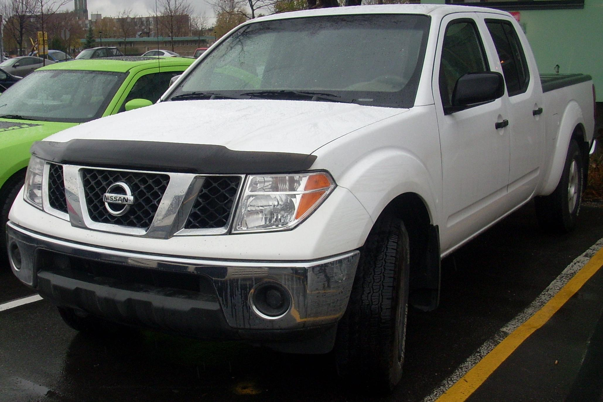 2005-present Nissan Frontier photographed in Montreal, Quebec, Canada.